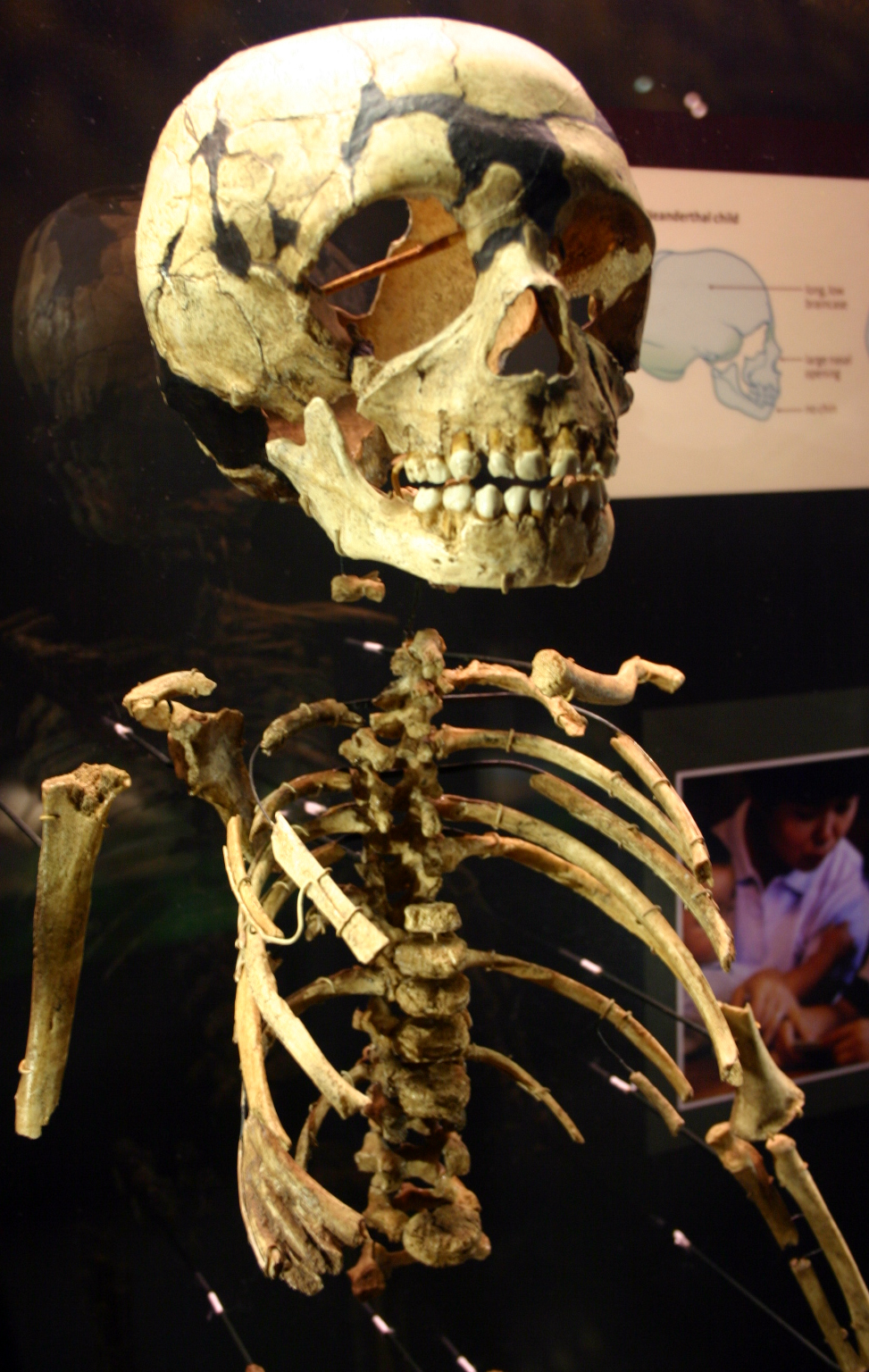 Skeleton of a 4 year old Neanderthal child found buried under a cliff shelter, Roc de Marsal, 75,000 years. Les Eyzies, Vezere Valley, France.